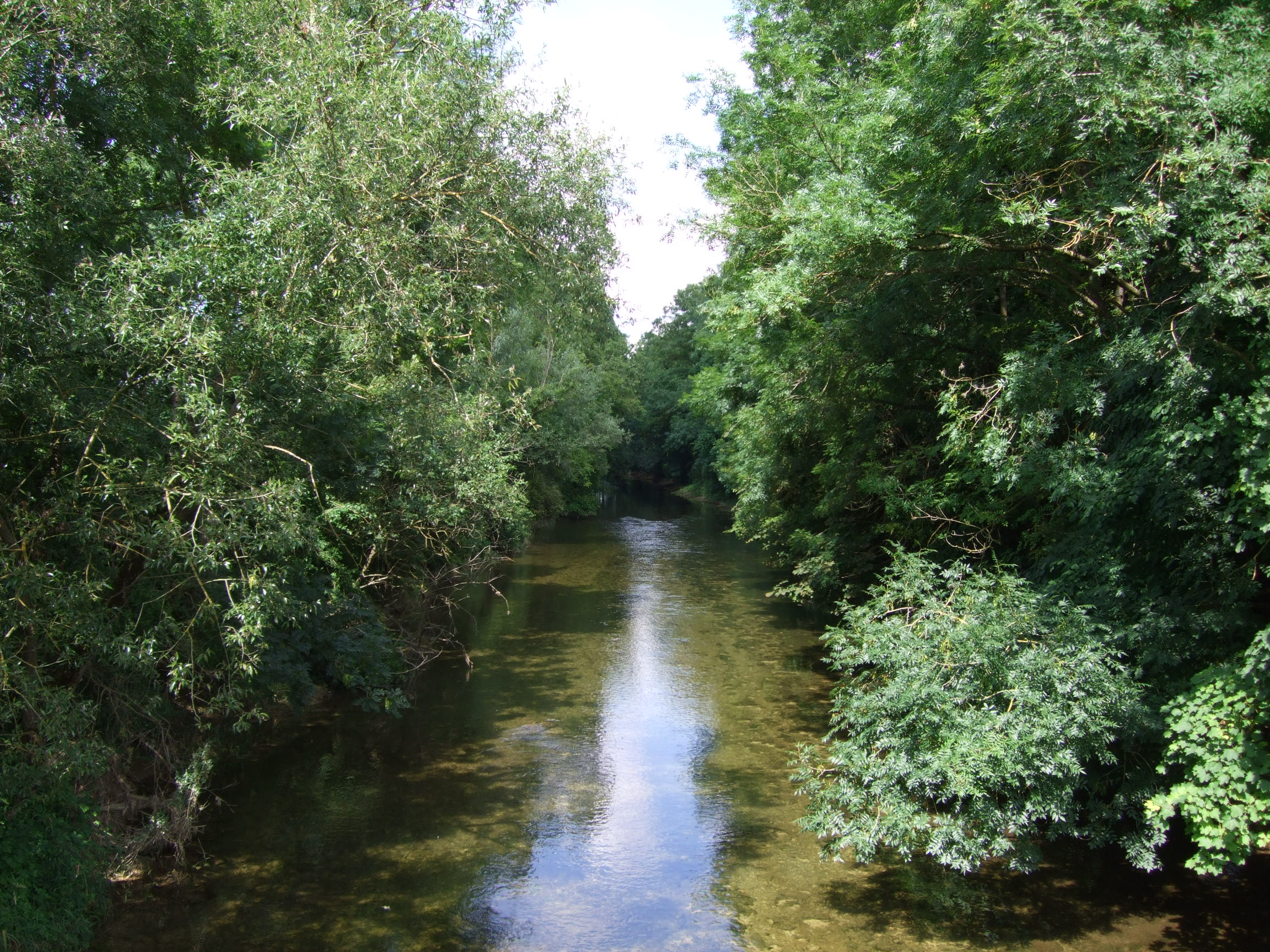 Tille river